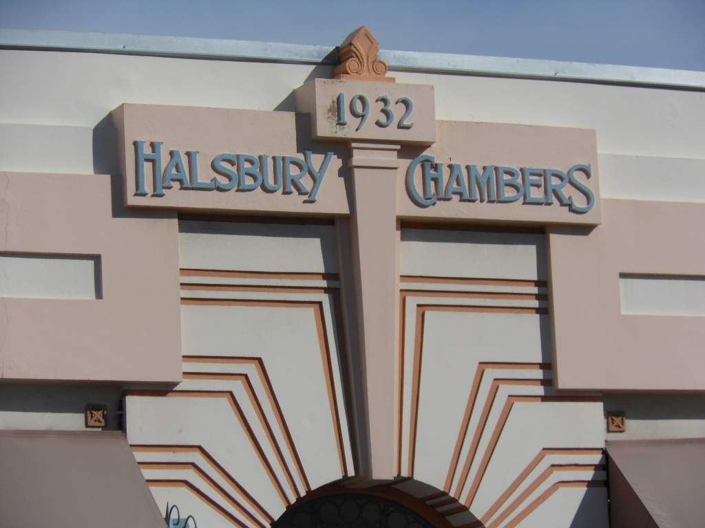 Halsbury Chambers - Detail